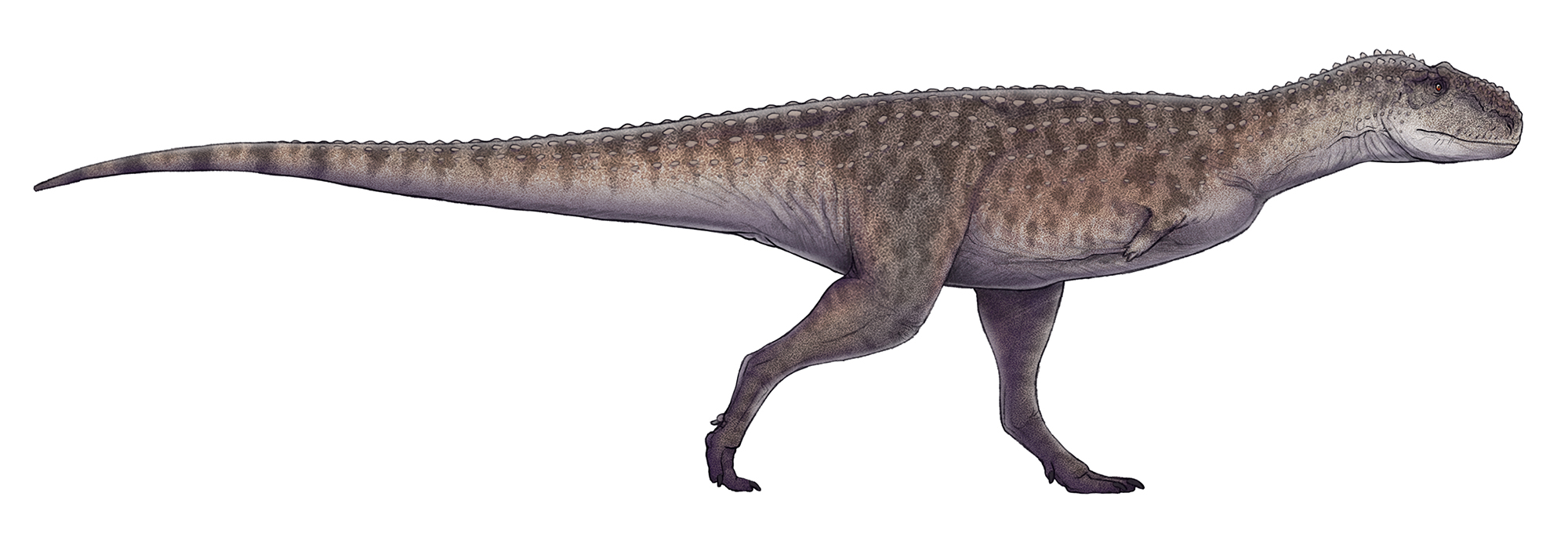 Restoration of Rajasaurus narmadensis based on GSI 21141/1–33.